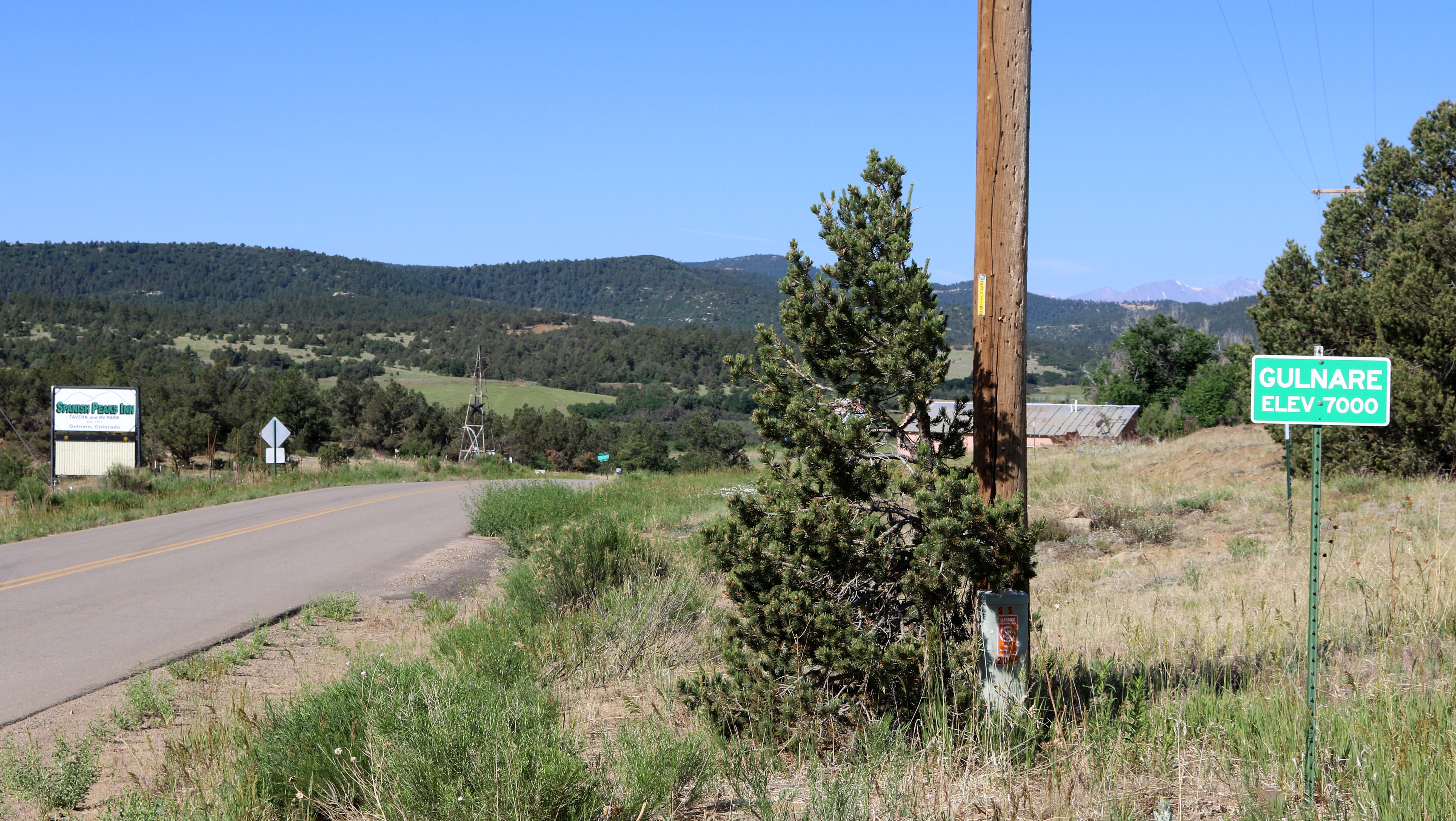 A view of Gulnare, Colorado in Las Animas County. The view is to the west from the intersection of county roads 43.7 and 43.6.